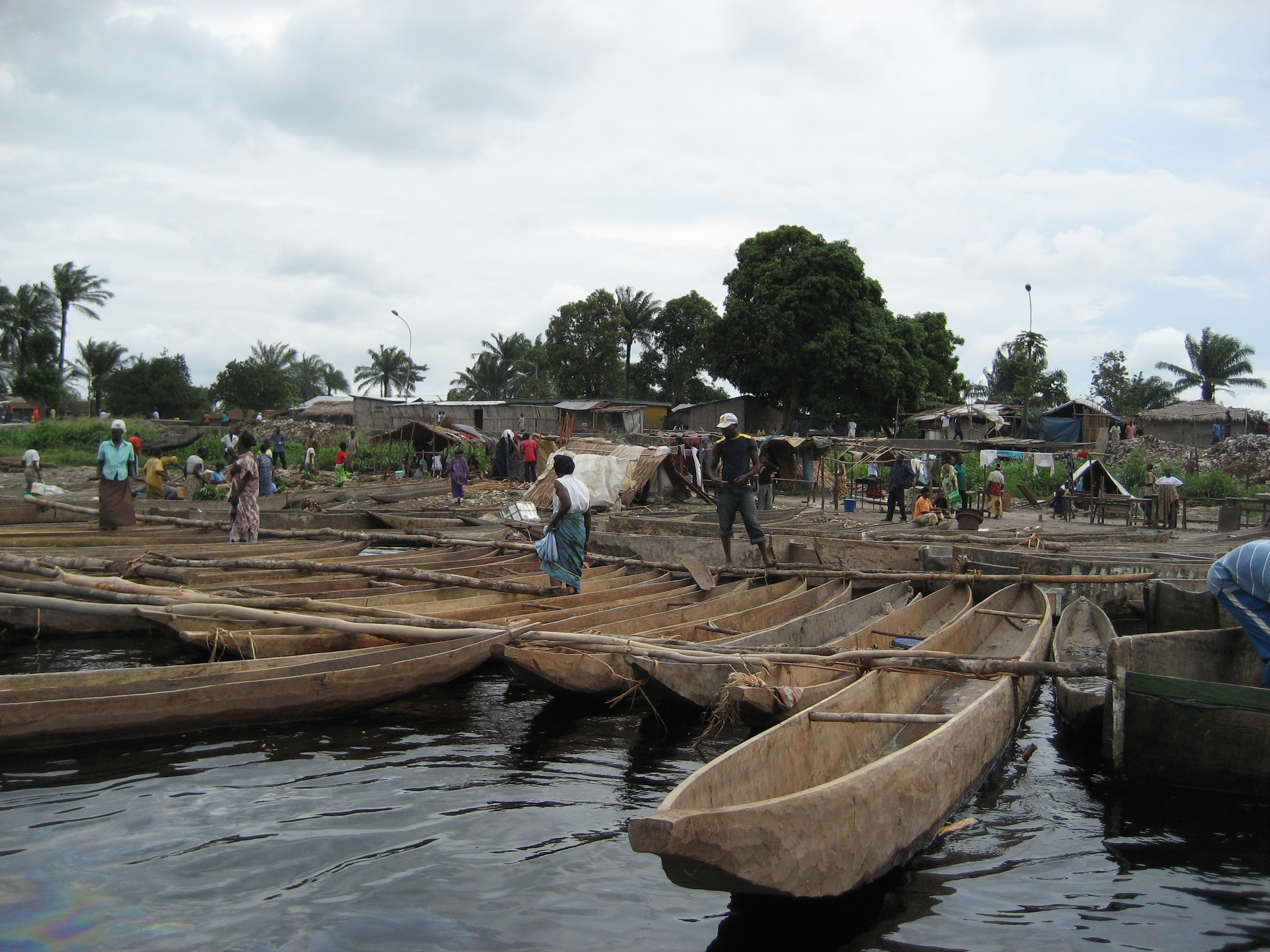 Harbour of the town of Mossaka (Republic of the Congo)